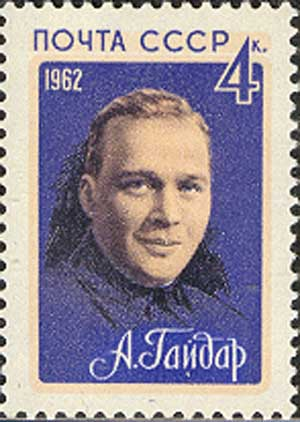 Stamp of the Soviet Union, Russian Soviet writer Arkady Gaidar, 1962.